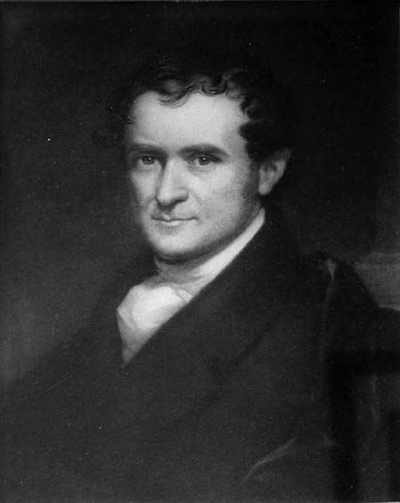 Henry Ware, the first president of the Harvard Musical Association.